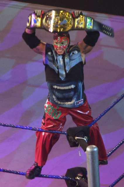 WWE Intercontinental Champion Rey Mysterio plays to the crowd during a television taping of WWE SmackDown!. Originally taken 4/28/2009 at Madison Square Garden, New York, NY.